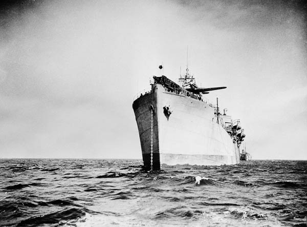 Reproduction ID: AD10115 Maker: Unknown Date: 1942 This photograph is featured in Arctic Convoys, a new photographic exhibition looking at the experiences of those who served on the Arctic Convoys. It's on at the National Maritime Museum until 4 November 2012